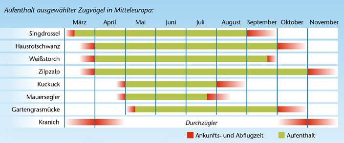 Information graphics: Migrant birds in middle Europe